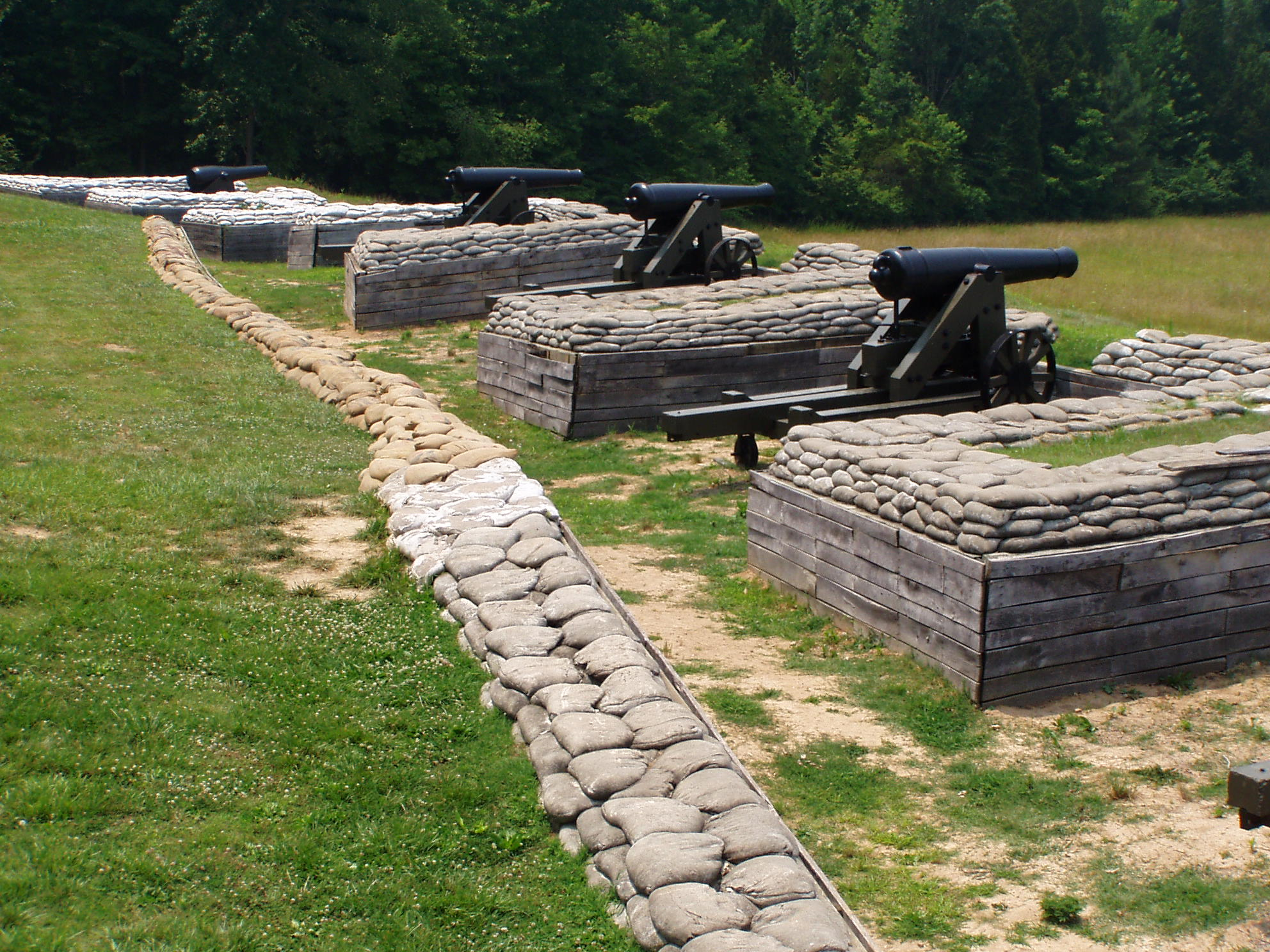 Lower River Battery overlooking the Cumberland River at Fort Donelson Nat'l Battlefield. Stop #4